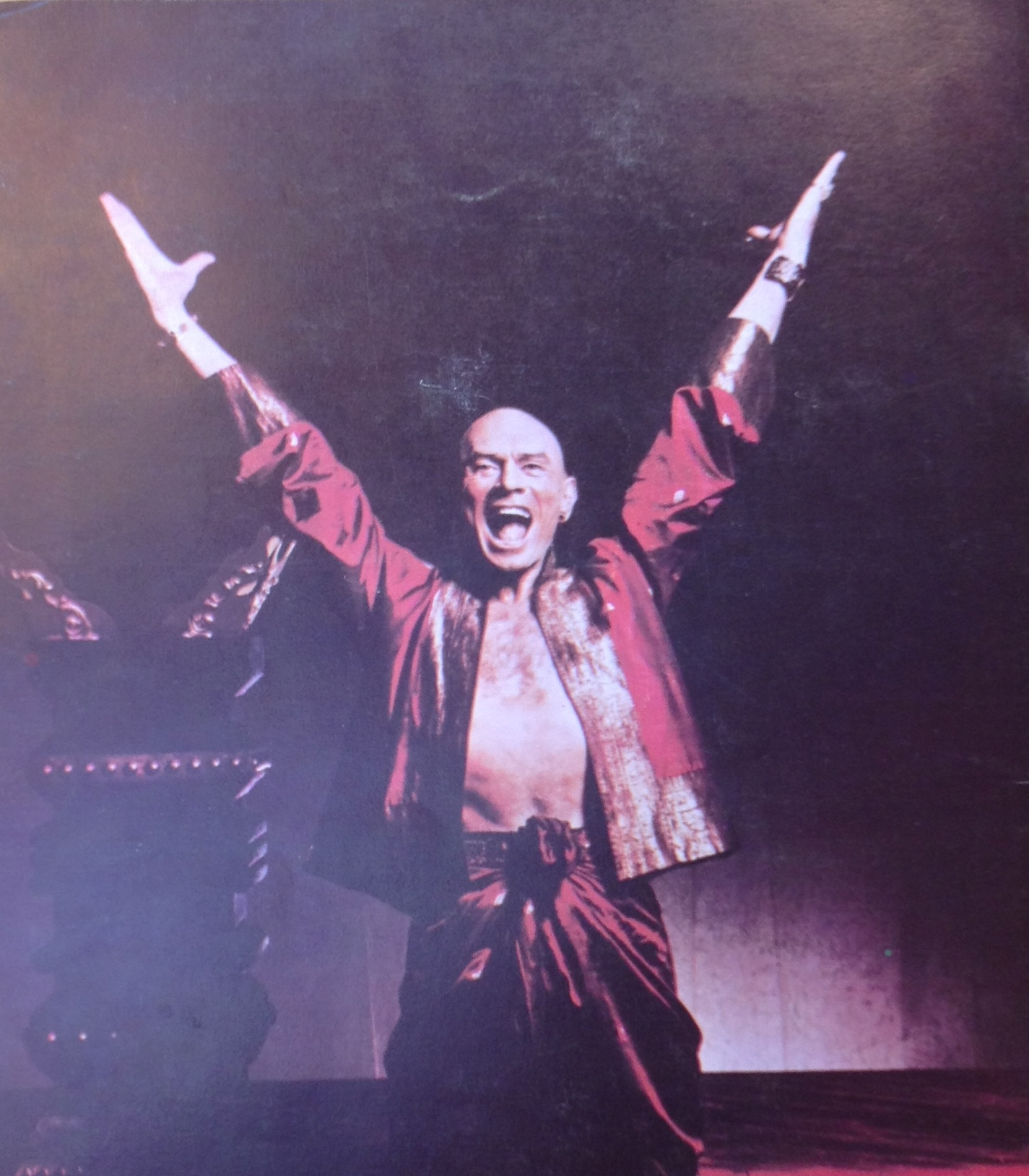 Yul Brynner as the King, from a 1977 souvenir program for The King and I. Lacks any copyright notice, so it is no longer under copyright. Image photographed with catalog number at the New York Public Library, Performing Arts Branch, using the call number for this program here however it appears to vary slightly, including this image. Physical check for copyright notice done, none seen.